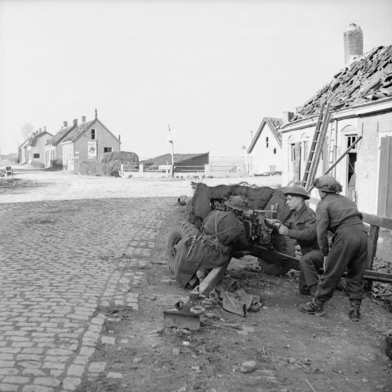 6-pdr anti-tank gun of the 4th Hallamshires, 49th Division, guarding the road to Willemstad, Holland, 8 November 1944. 6-pdr anti-tank gun of the 4th Hallamshires, 49th Division, guarding the road to Willemstad, 8 November 1944.